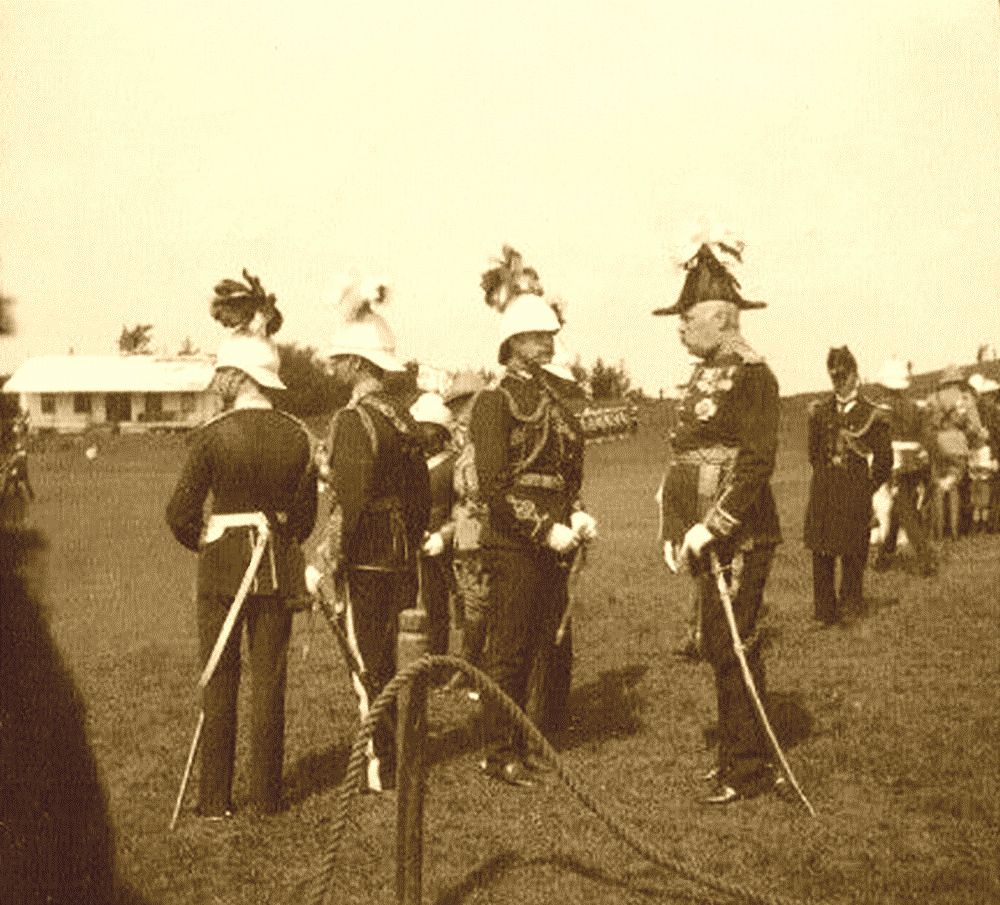 HE The Governor, Commander-in-Chief and Vice-Admiral of Bermuda, Lt. Gen. Sir Henry LeGuay Geary, KCB (right), at Prospect Camp, Bermuda, on Tuesday, the 11 March, 1902 to decorate with the Distinguished Service Order Major G.D. Armstrong and Major L.E. Morrice of the 2nd Battalion of the Royal Warwickshire Regiment, and Lieutenant L.N. Lloyd of the Royal Army Medical Corps. The awards were for the officers' conducts in South Africa during the Second Boer War.